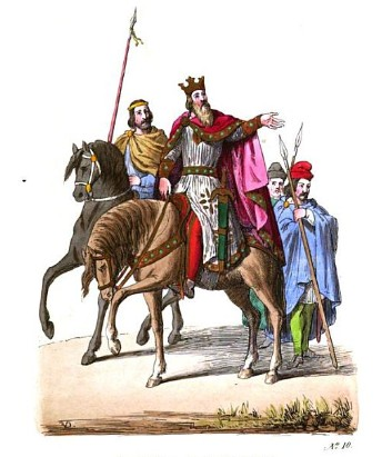 Baldwin IV of Flanders